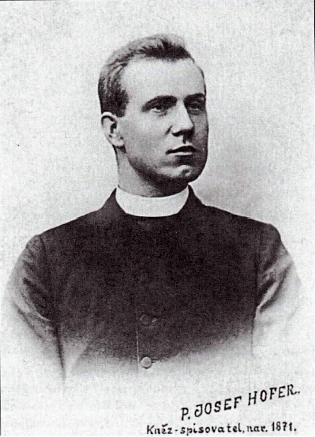 Josef Hofer (Joseph Hofer) (* November 19, 1871 Snovídky u Vyškova - March 8, 1947, Luhačovice) was a Catholic priest, a teacher, a journalist, a religious writer and political publicist, the author of short stories. Josef Hofer is known above all as a sharp critic of Olomouc Archbishop ThDr. Theodor Kohn (*1845 – 1915). Josef Hofer is also known above all as the priest (pastor) from Old Hrozenkov (Starý Hrozenkov) in Moravské Kopanice (Moravian Digging-fields) in period of 1910 - 1920. His best known published books are: "Bohyně na Žítkové" ("The Goddess on Žítková"), "Povídky z Kopanic" ("Stories from Kopanice") a "Kopaničářské povídky" ("Kopanice's stories") and double-book "Římská církev v nedbalkách" ("The Roman church in the underwear"). Photo of Josef Hofer as a pastor dated before 1925. Portrait of Josef Hofer - priest in Starý Hrozenkov in the years 1910 - 1920. The photograph comes from the Slovácké Museum in Uherské Hradiště.